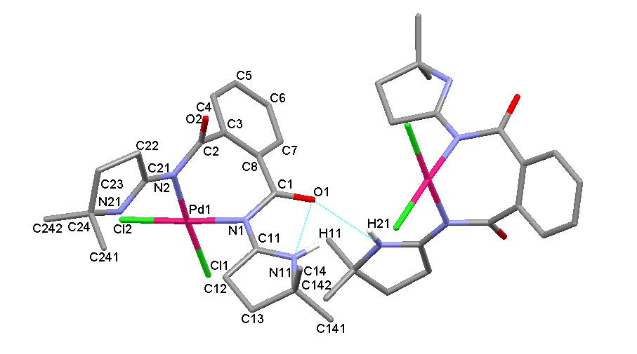 RX Compound